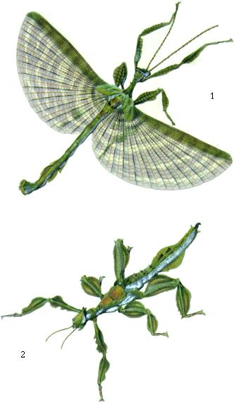 Plate from The Monograph of the Genus Phasma. Species is probably the Australian Extatosoma tiaratum, the Giant Prickly Stick Insect. Species reference